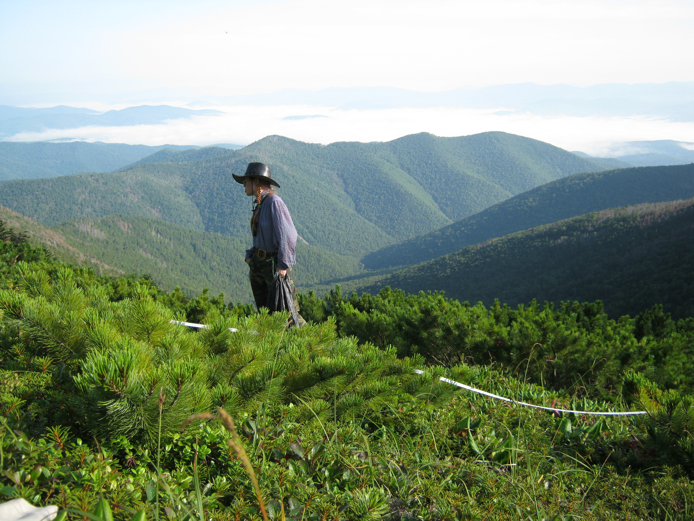 Geobotanical description of the vegetation of the high mountains of the Sikhote-Alin range in the NAT.Park "call of the Tiger"